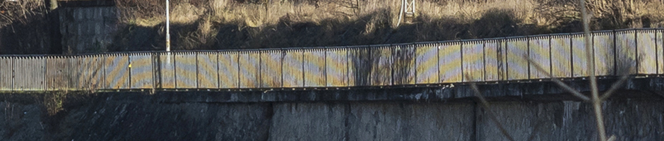 Moiré in digital photography